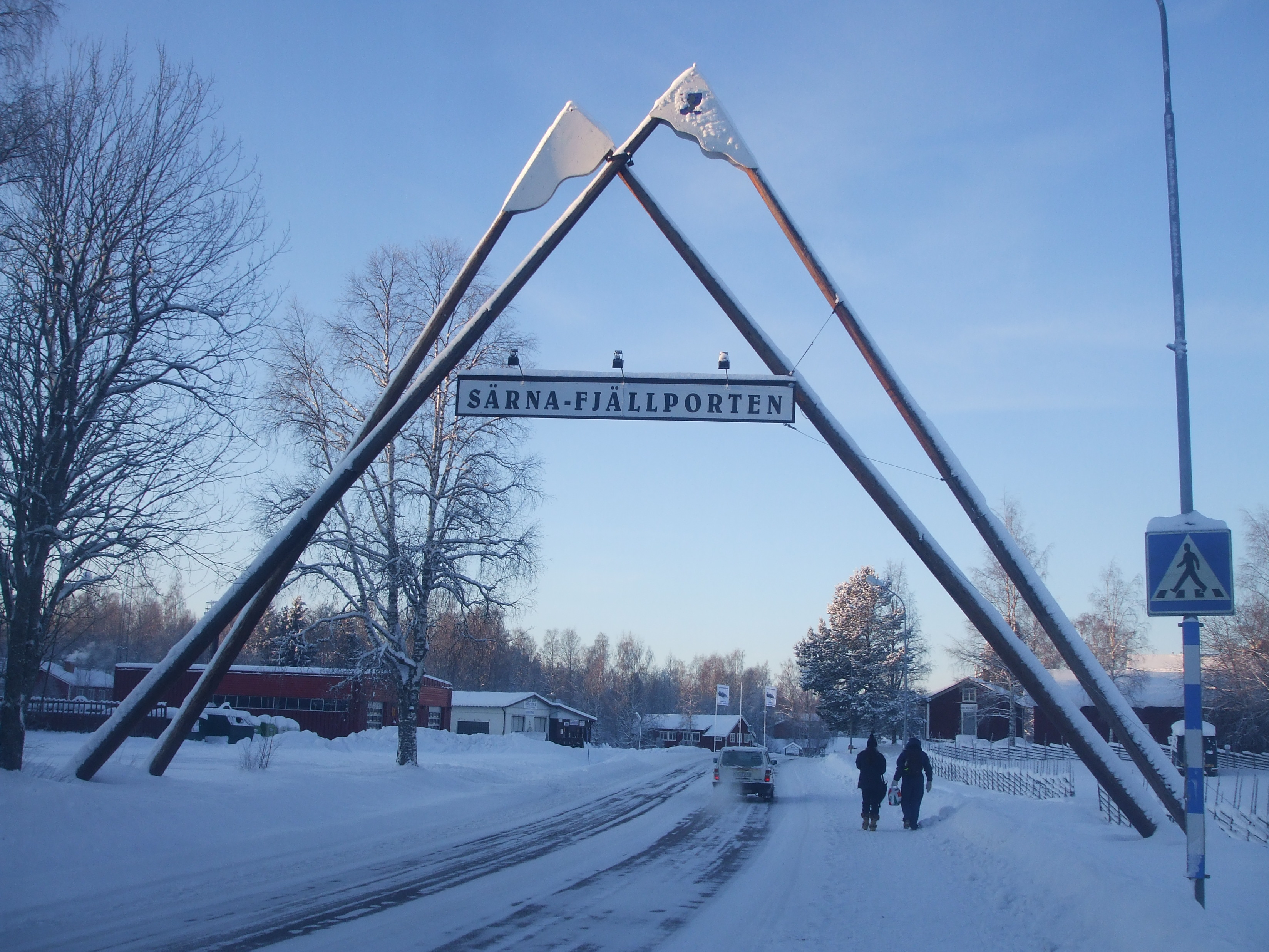 Road entering Särna locality, in the Älvdalen Municipality, Sweden. The sign says: "Särna - gate of mountains"